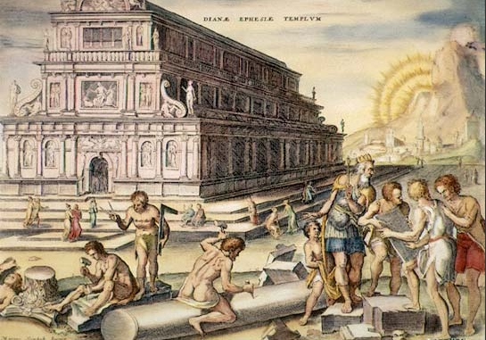 Fantastic reconstruction of the Temple of Artemis at Ephesus, depicted here in a hand-coloured engraving.